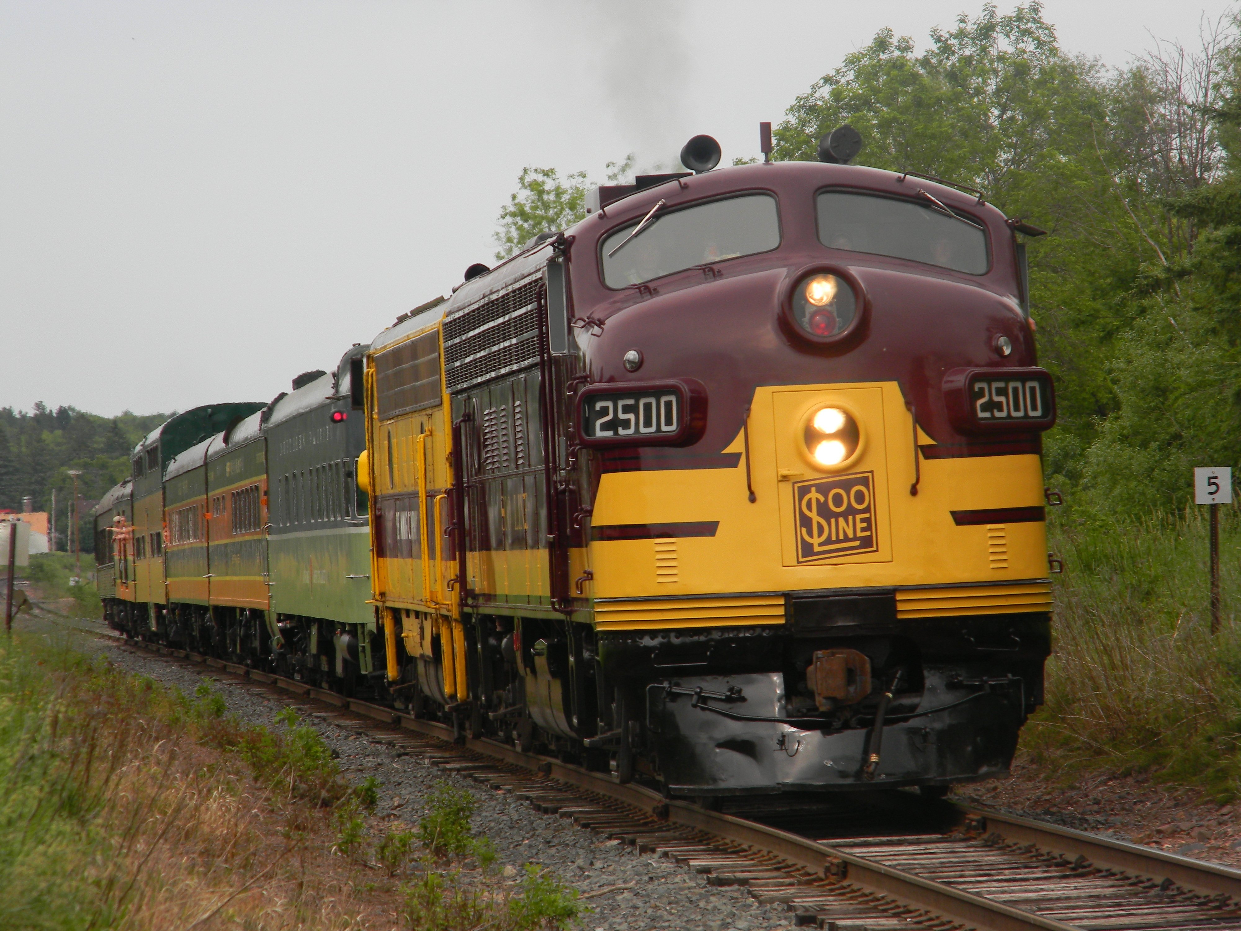 Soo Line 2500 leads a streamliner special in Duluth, July 12, 2014